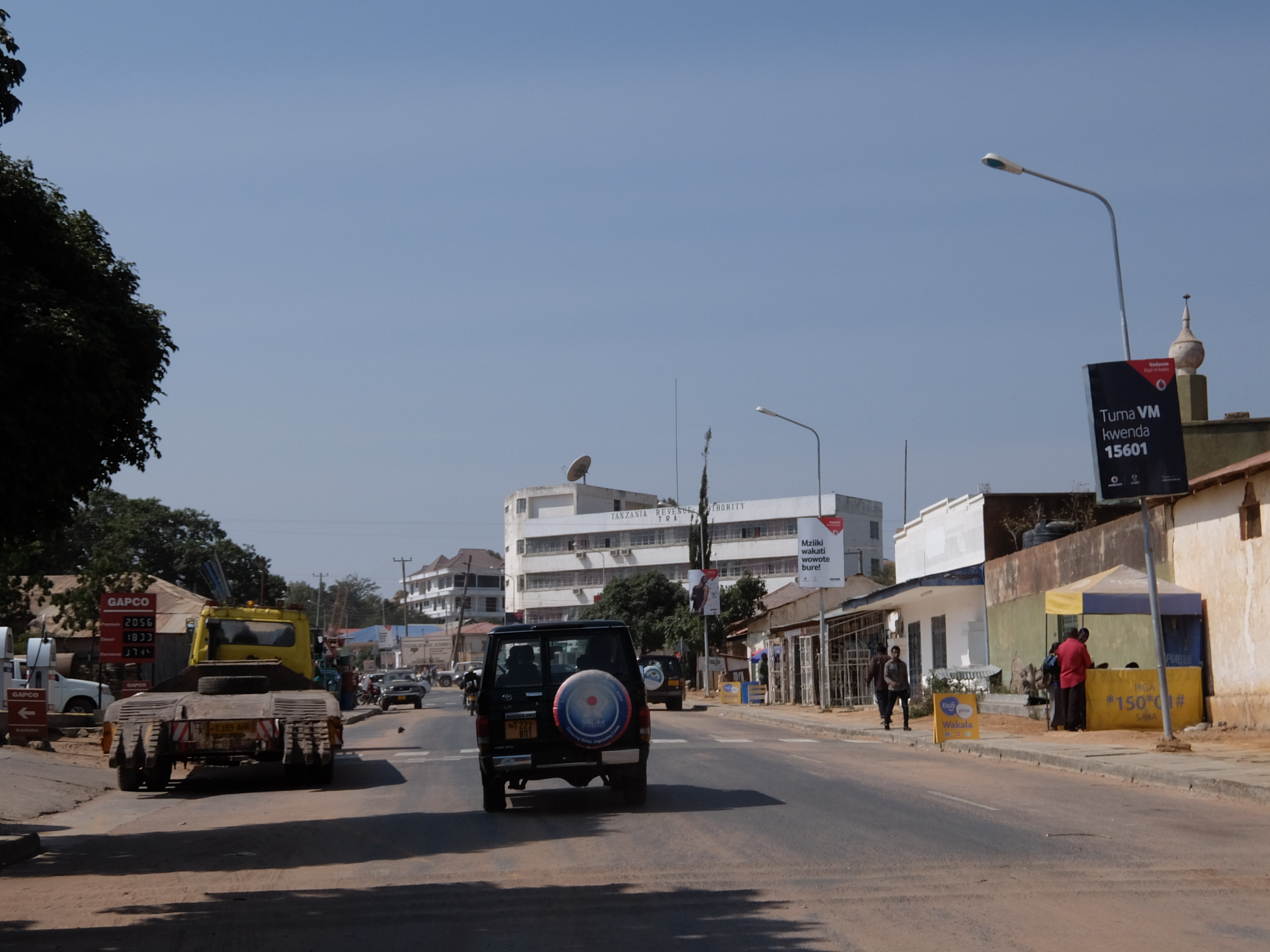 Main street in Singida town. The TRA office can be seen in the background.